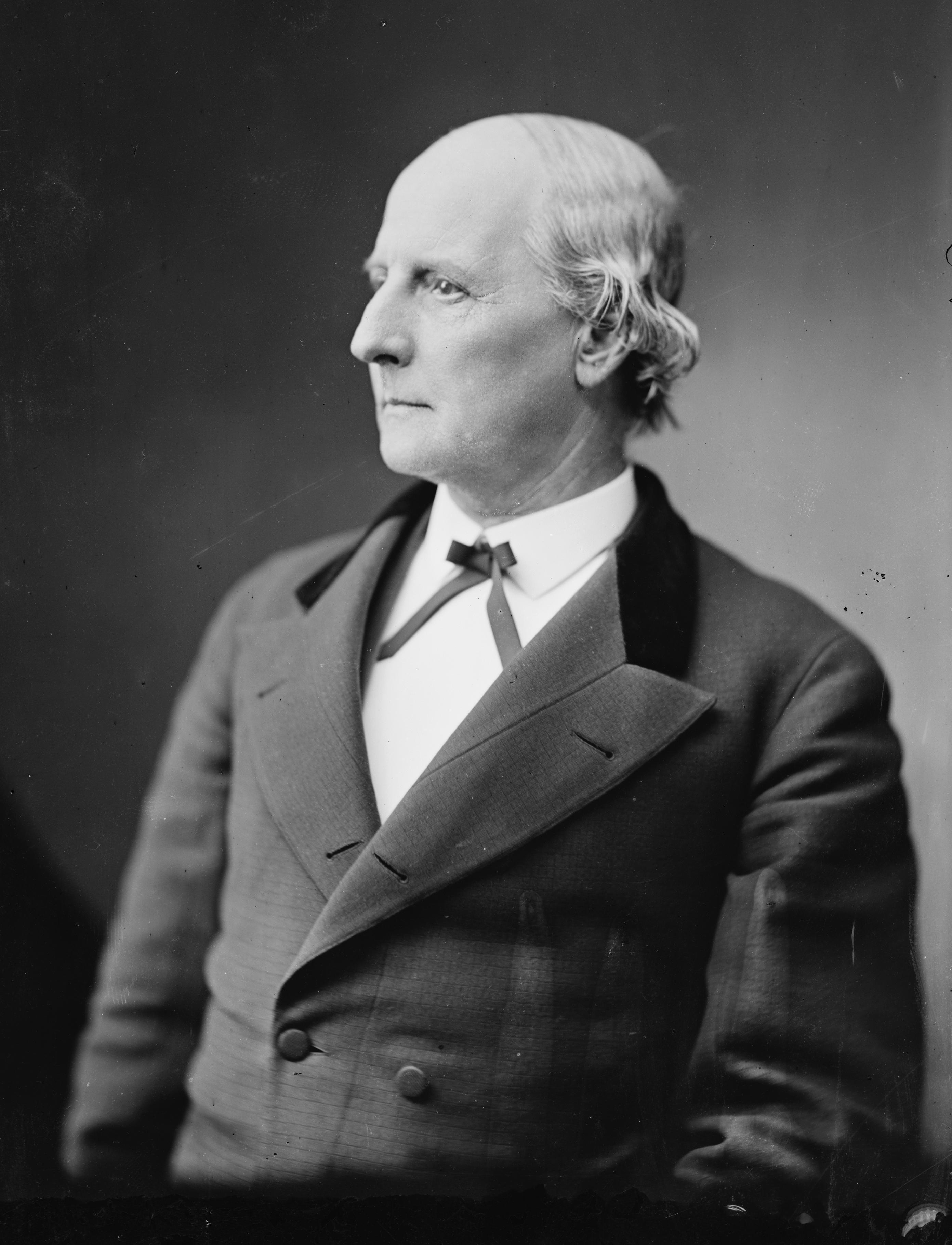 Stephen A. Hurlbut. Library of Congress description: "Hurlbert, Gen. S.A. (not in uniform)".